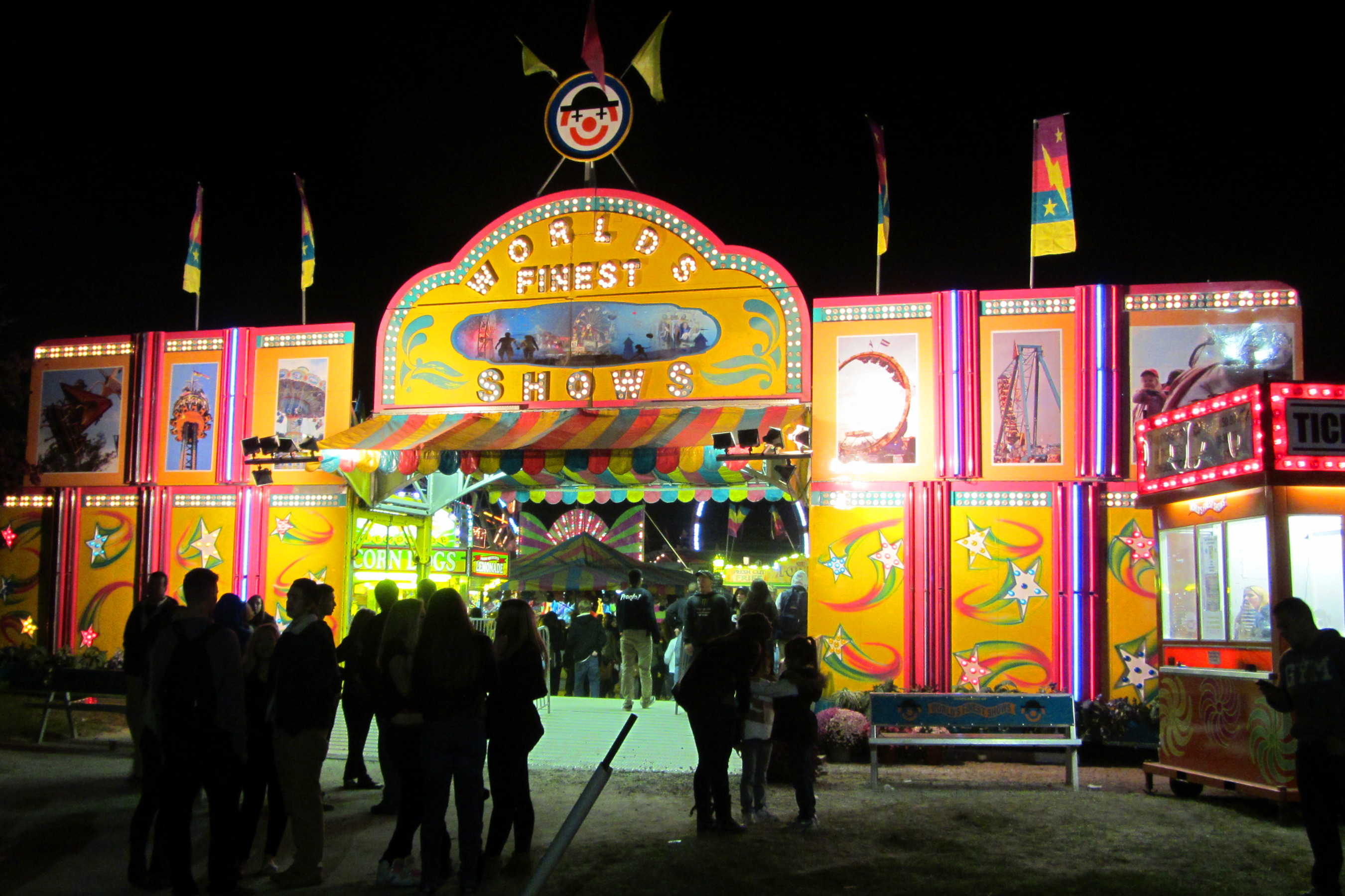 I went to the Markham Fair back in September, but I only got a few pictures. Oh well, here they are. This is the entrance gate to the midway.